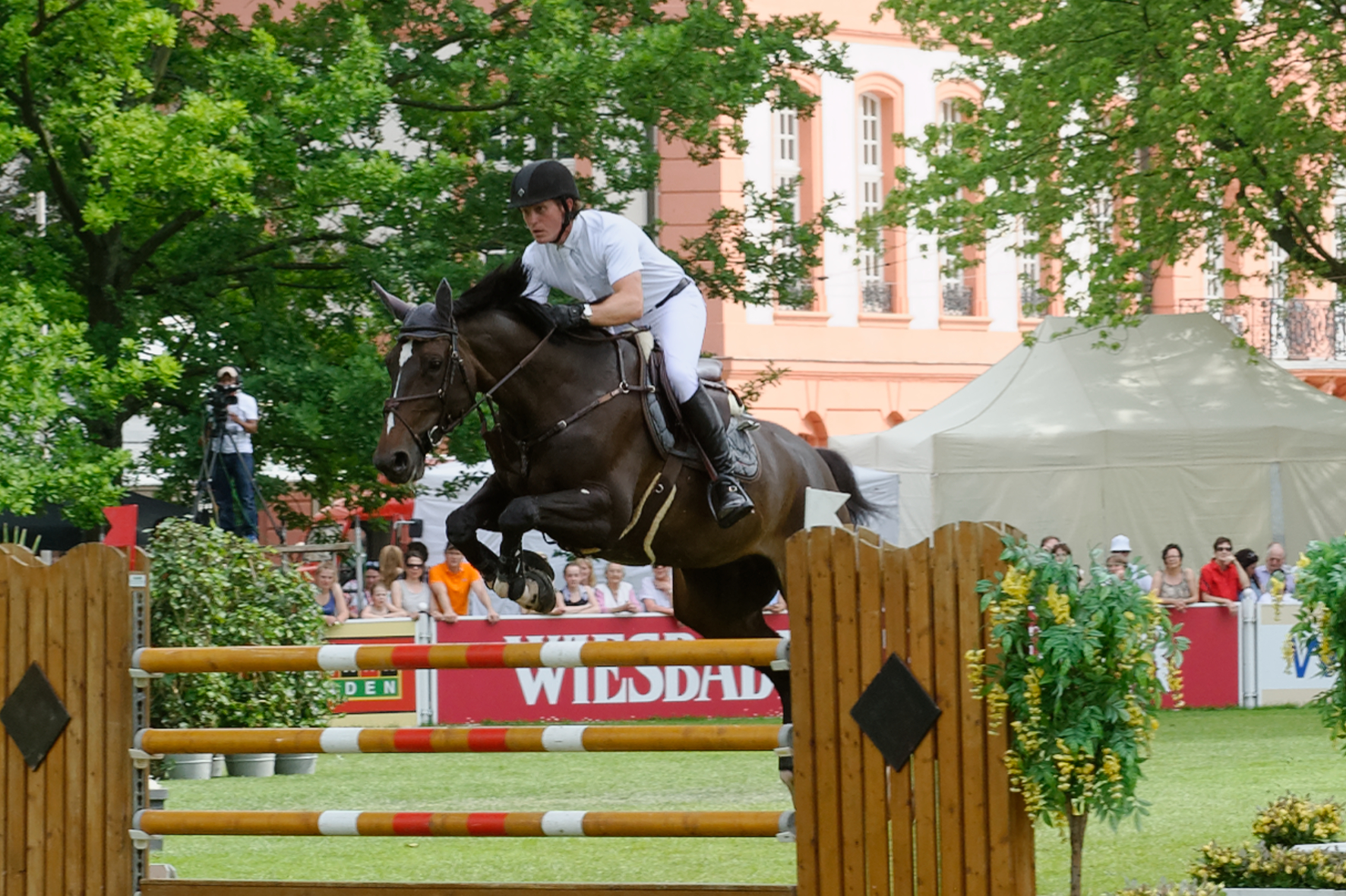 Internationales Pfingstturnier Wiesbaden 2014 The making of this document was supported by the Community-Budget of Wikimedia Germany.